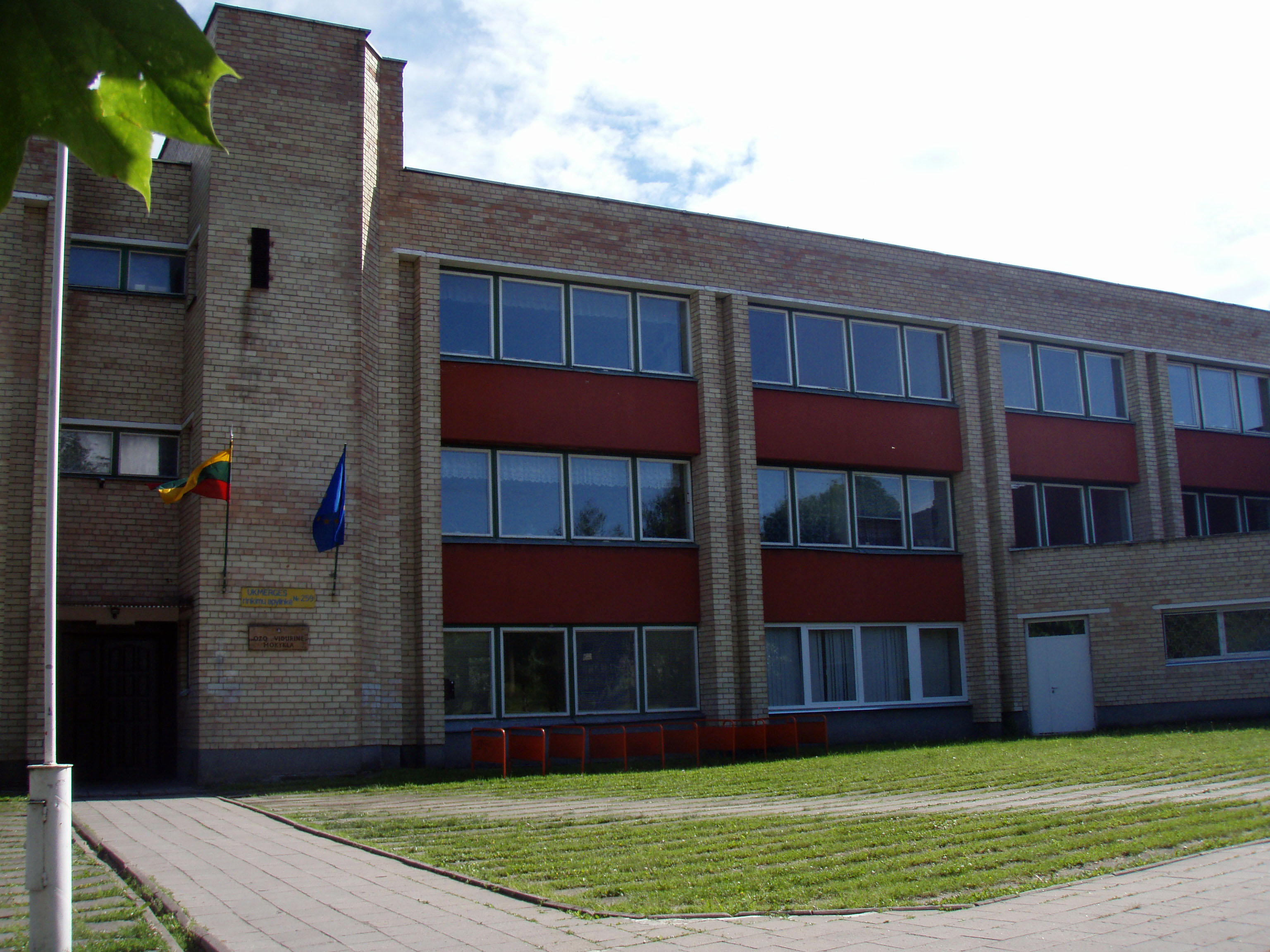 Ozo middle school, Vilnius, Lithuania